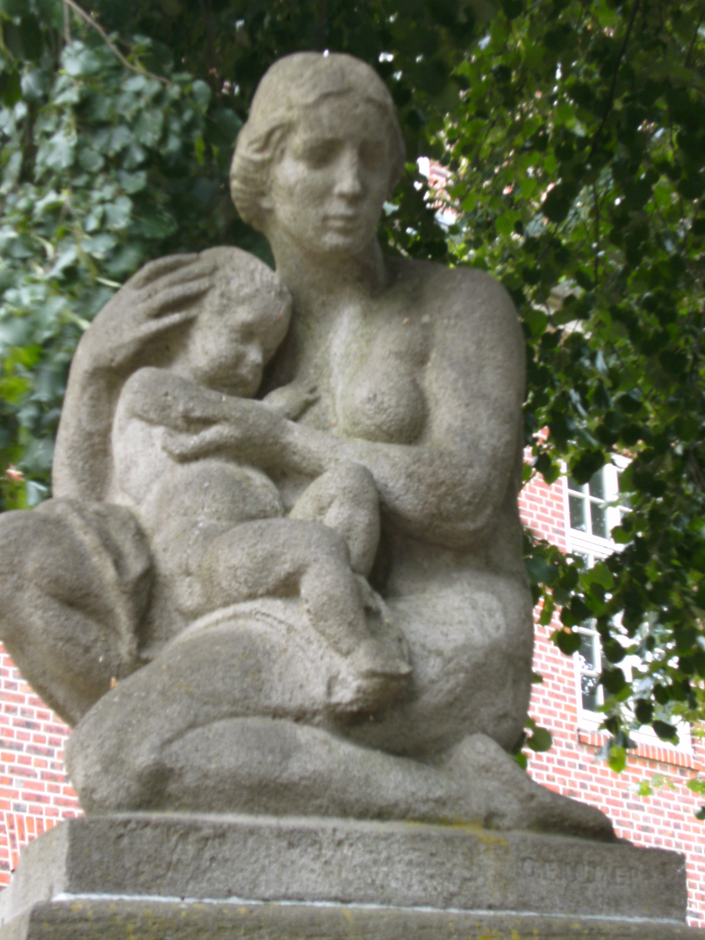 In Hamburg, Finkenau street, there is a fountain with a mother with child figure on top. This is a symbol for the former use of the building as gynecological clinic.